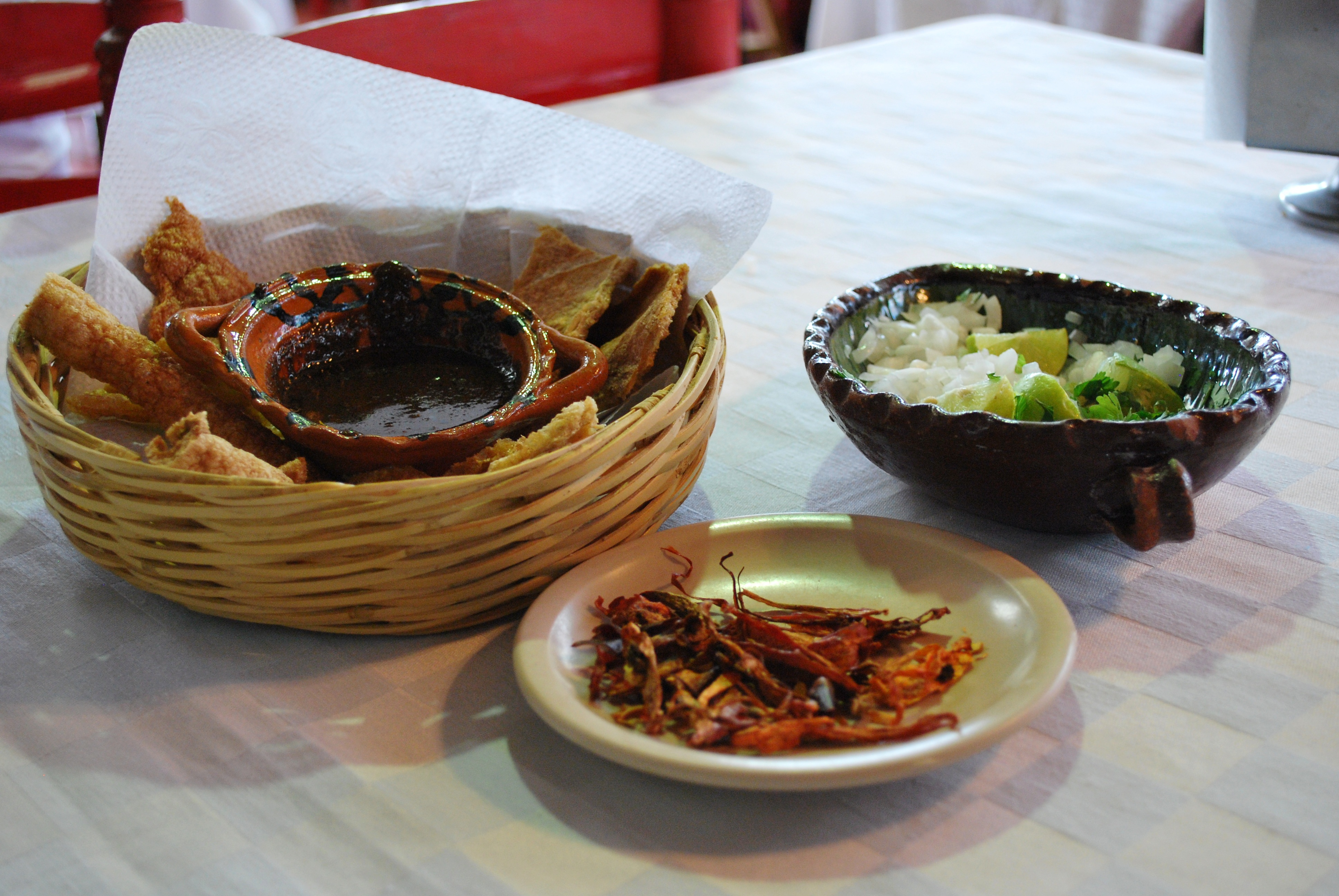 Chicharon (fried pork rind) appetizer with mole sauce, with dried chiles, onion and limes on the side. At a restaurant in San Pedro Atocpan, Milpa Alta, Mexico City